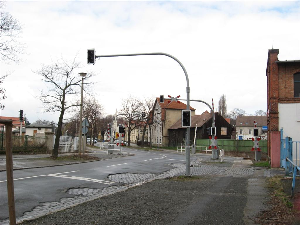 level-crossing at Quedlinburg: Albert-Schweitzer-Straße